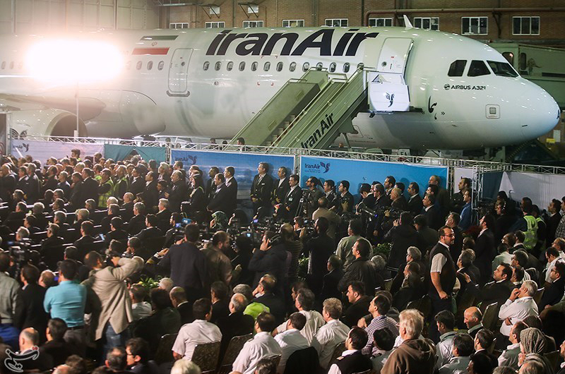 Arrival of Iran Air Airbus A321 (EP-IFA) to Mehrabad International Airport